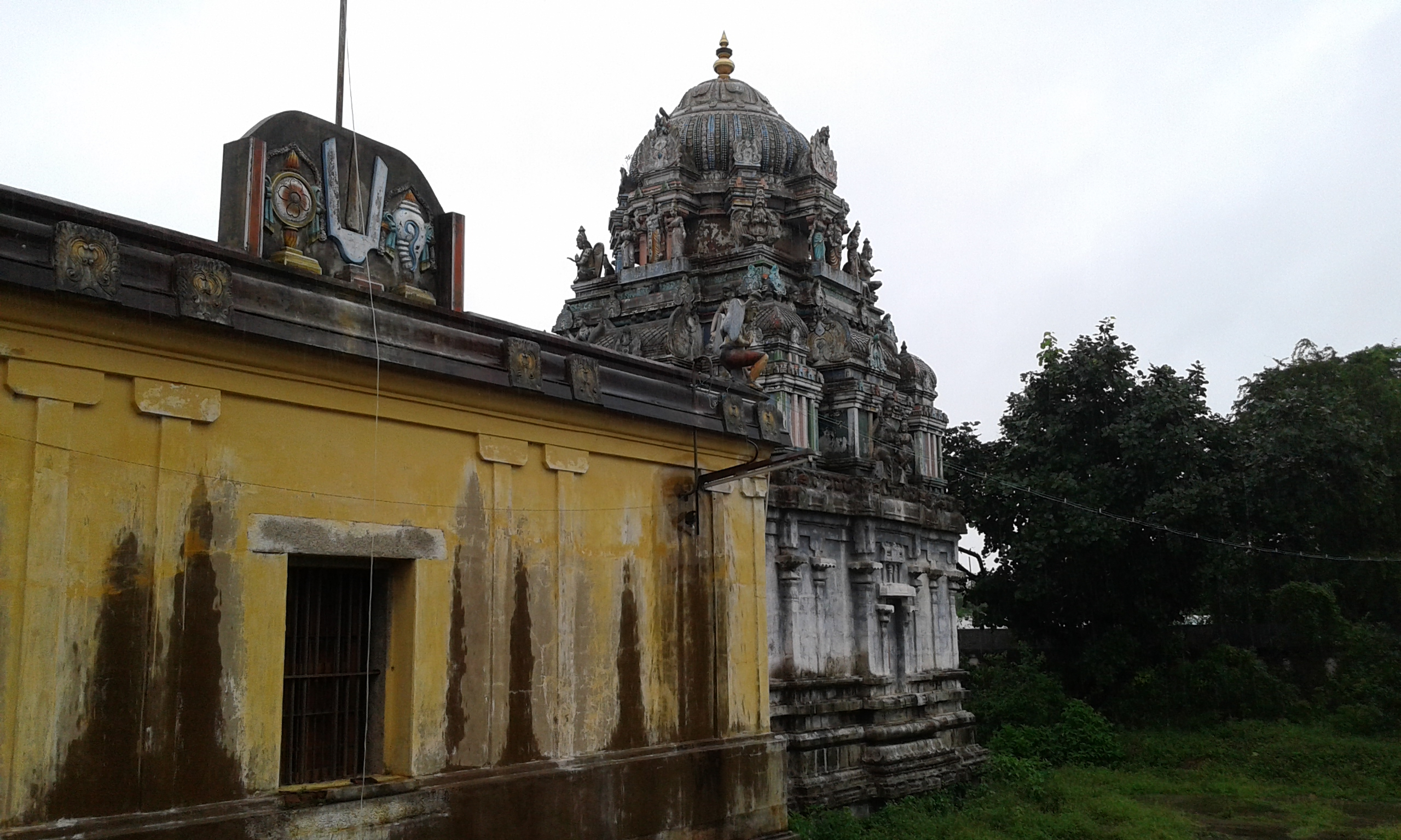 Thirukkavalampadi